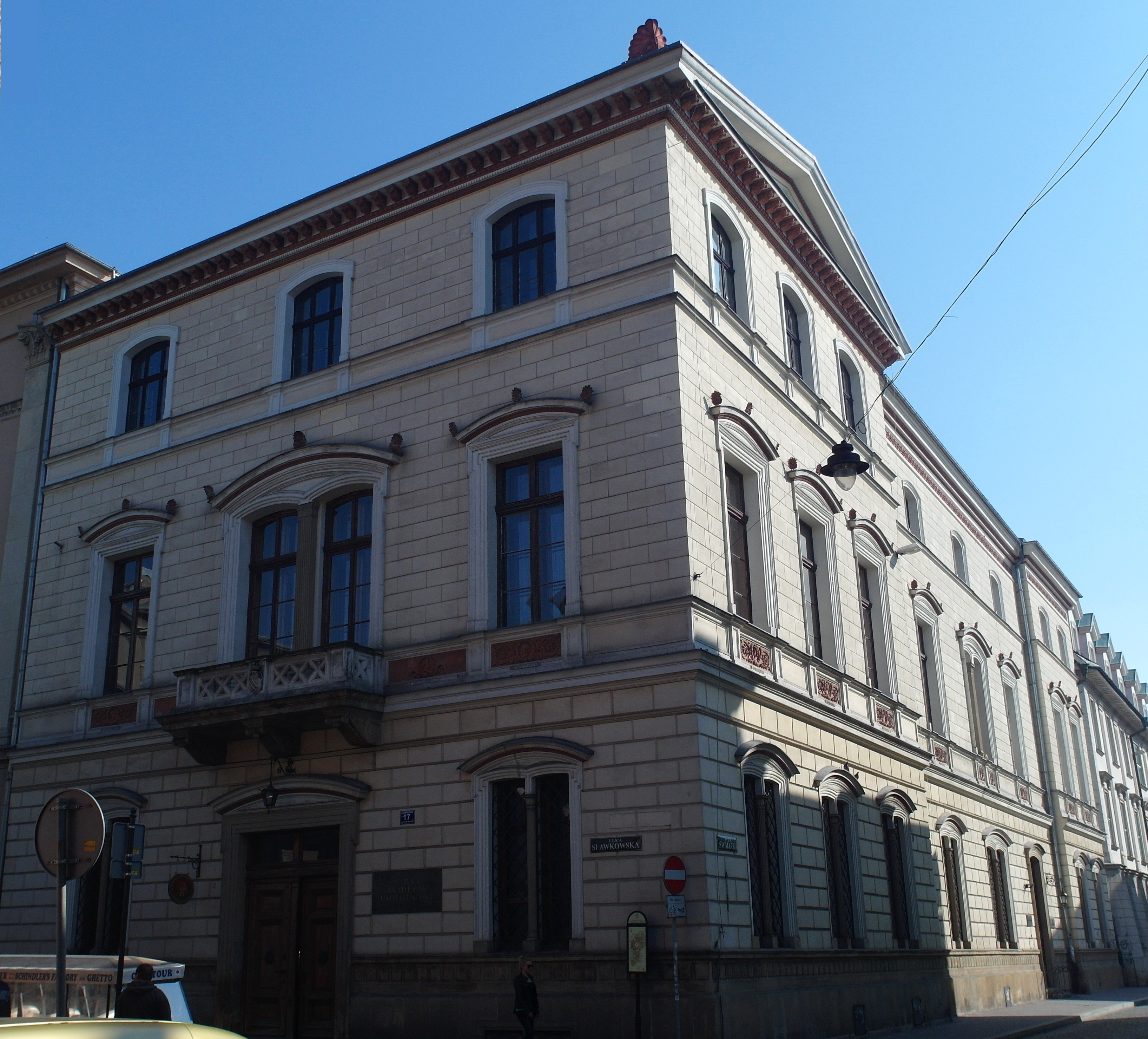 Category:Biblioteka Naukowa PAU and PAN in Kraków